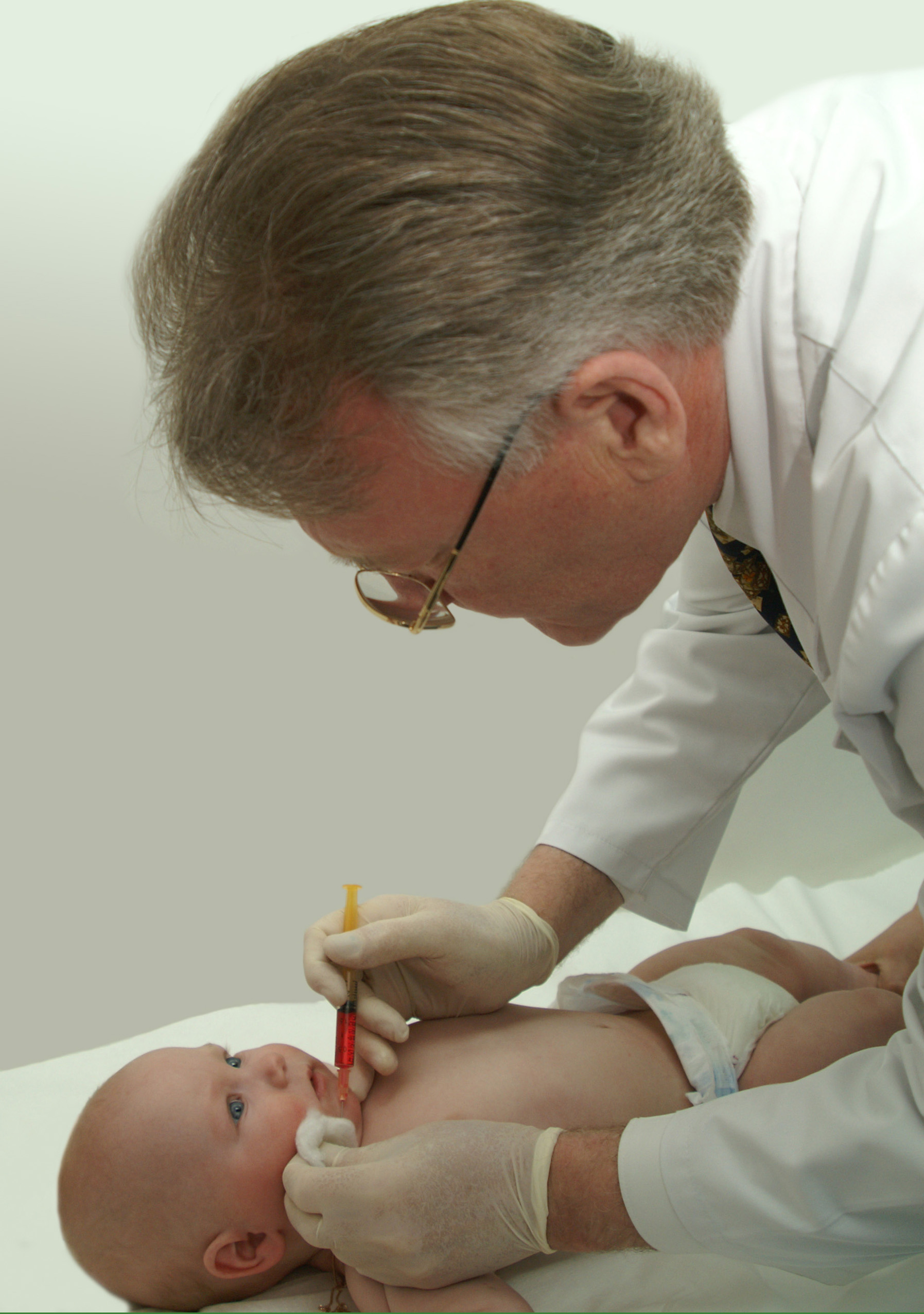 В.А. Берсенєв та дитина